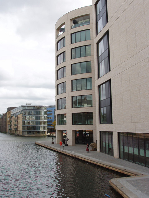 Kings Place Original description: Kings Place concert hall terrace The ground floor of this office block houses the foyer, cafe and bar, with access to this canal-side terrace. The concert halls are below ground. View along the Regent's canal from the York Road bridge.